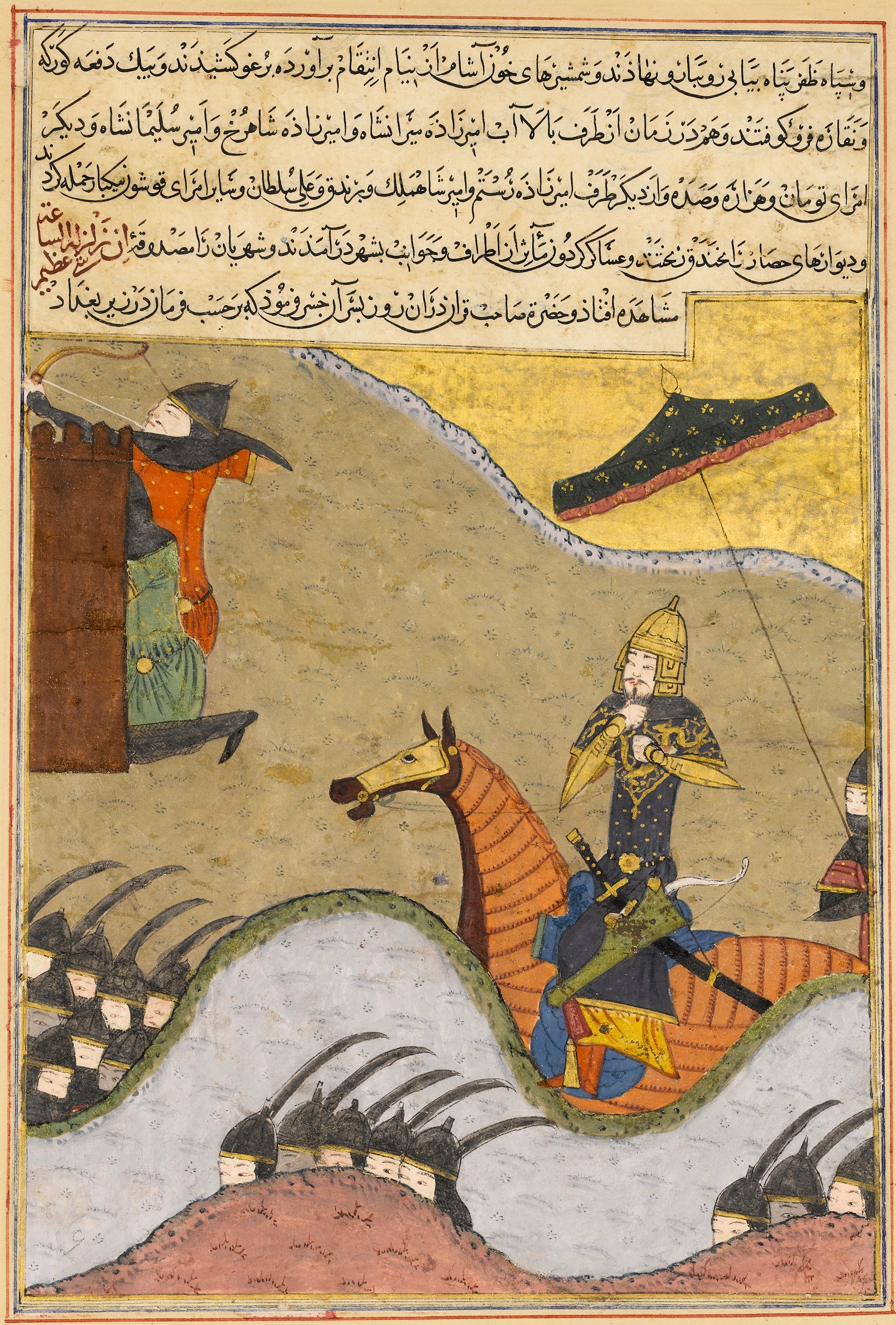 Folio from a manuscript of the Zafarnama (History of Timur) by Sharaf al-Din 'Ali Yazdi.